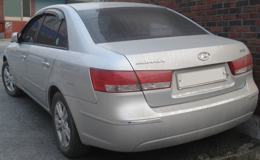 Hyundai Sonata Transform